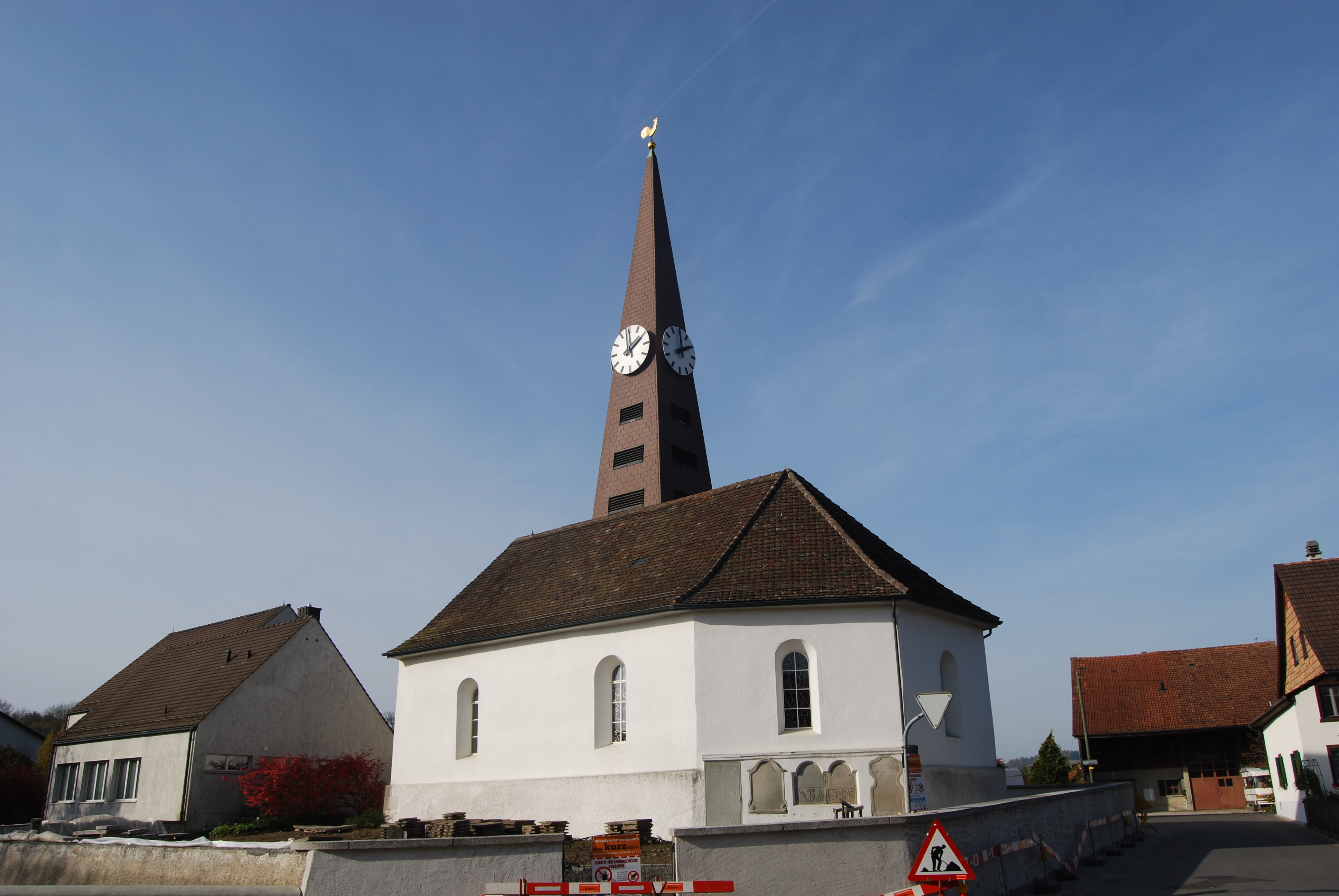 Church of Rickenbach, canton of Zürich, SwitzerlandEsperanto: Preĝejo de Rickenbach, Kantono Zuriko, Svislando